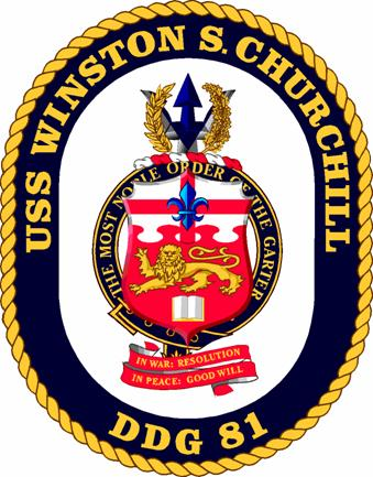 USS Winston Churchill (DDG-81) Coat Of Arms and Seal